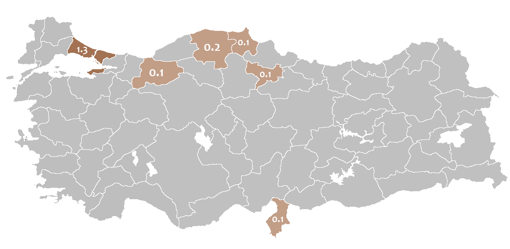 This map shows the distribution of people who spoke Armenian in 1965's Turkey.